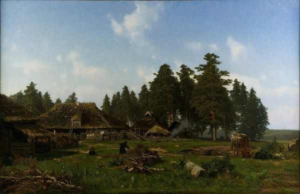 ESTONIAN FARMYARD.